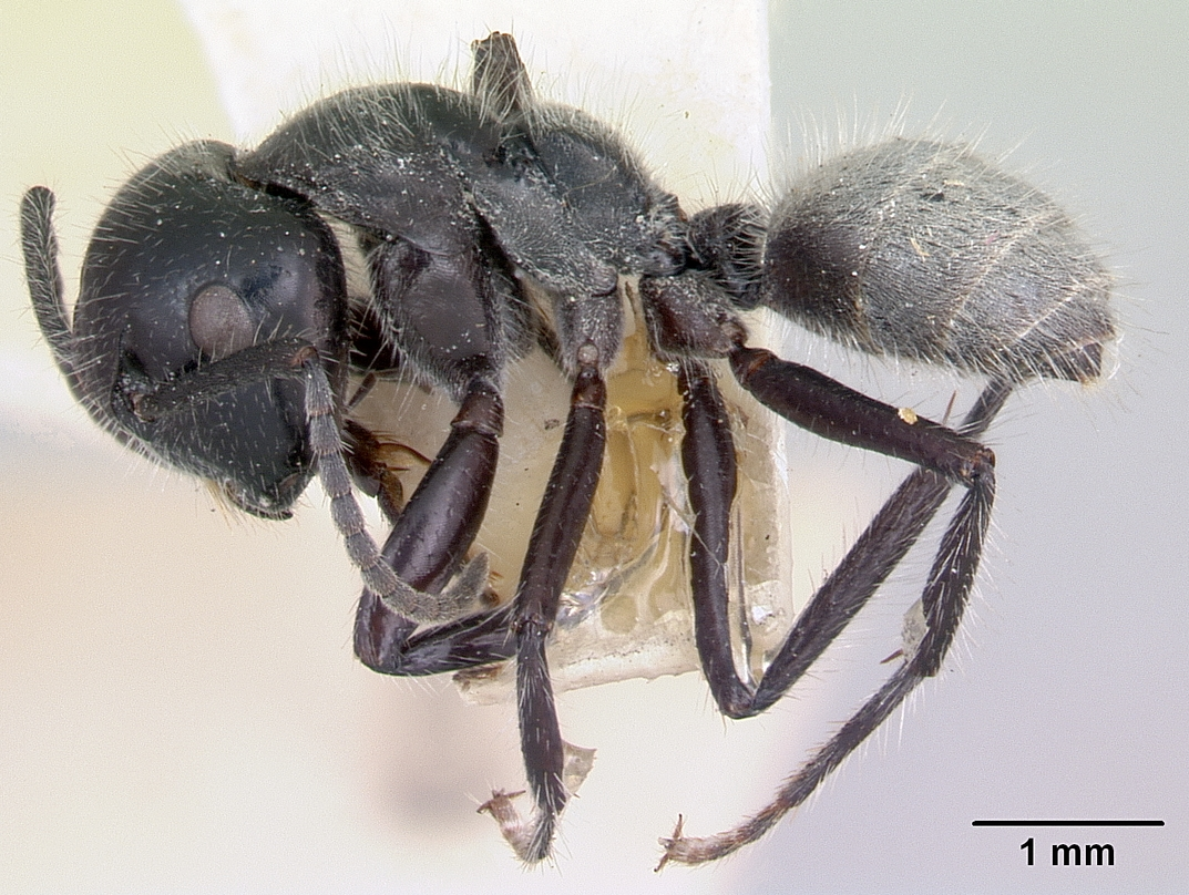 Profile view of ant Calomyrmex albertisi specimen casent0003286.